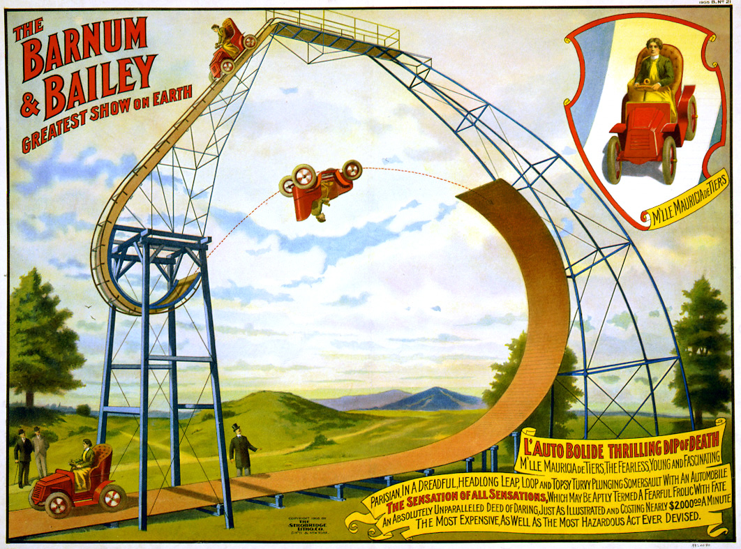 The Barnum and Bailey greatest show on earth. L'Auto Bolide thrilling dip of death. M'lle Mauricia de Tiers, the fearless, young and fascinating Parisian, in a dreadful, headlong leap, loop and topsy turvy plunging somersault with an automobile. The sensation of all sensations, which may be aptly termed a fearful frolic with fate. An absolutely unparalleled deed of daring, just as illustrated and costing nearly $2,000.00 a minute. The most expensive, as well as the most hazardous act ever devised. No. 21. MEDIUM: 1 print (poster) : chromolithograph, color.